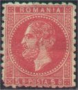 A Romania stamp issued in Paris and portraying the king Carol I, 1872